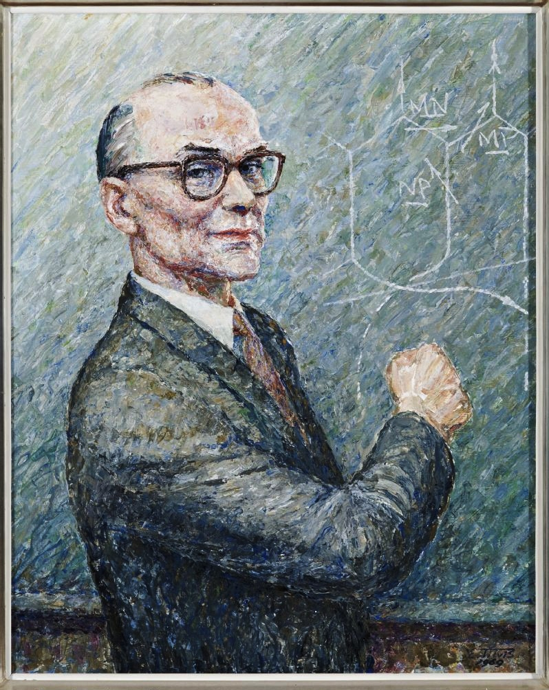 Portrait painting of the Finnish physicist and professor Heikki Miekk-oja (1908–1973).